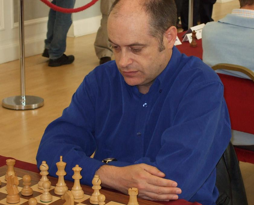 Round 6 of 4th EU Individual Open Ch., Liverpool World Museum, William Brown Street.